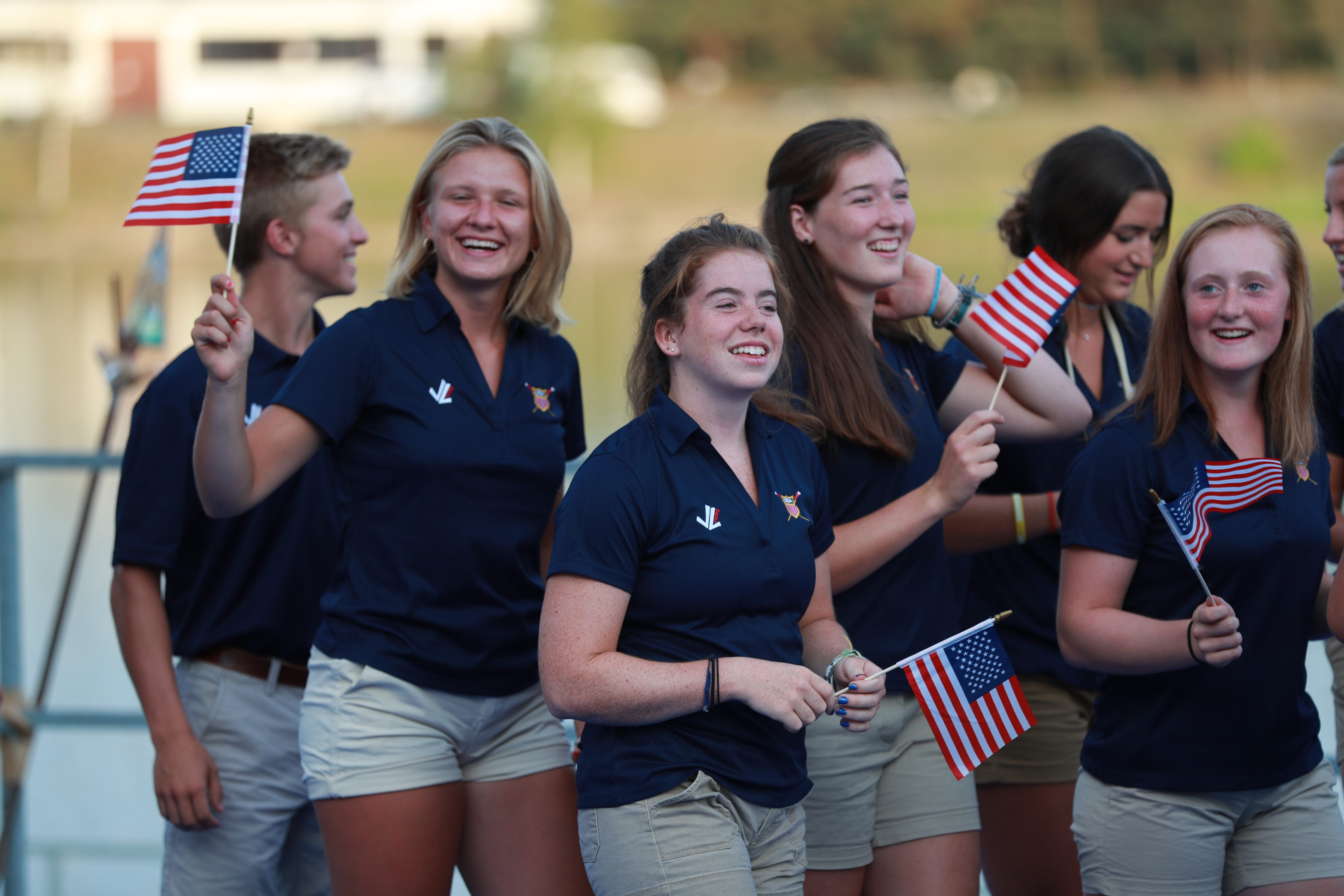 Opening Ceremony at the 2018 World Rowing Junior Championships in Račice u Štětí